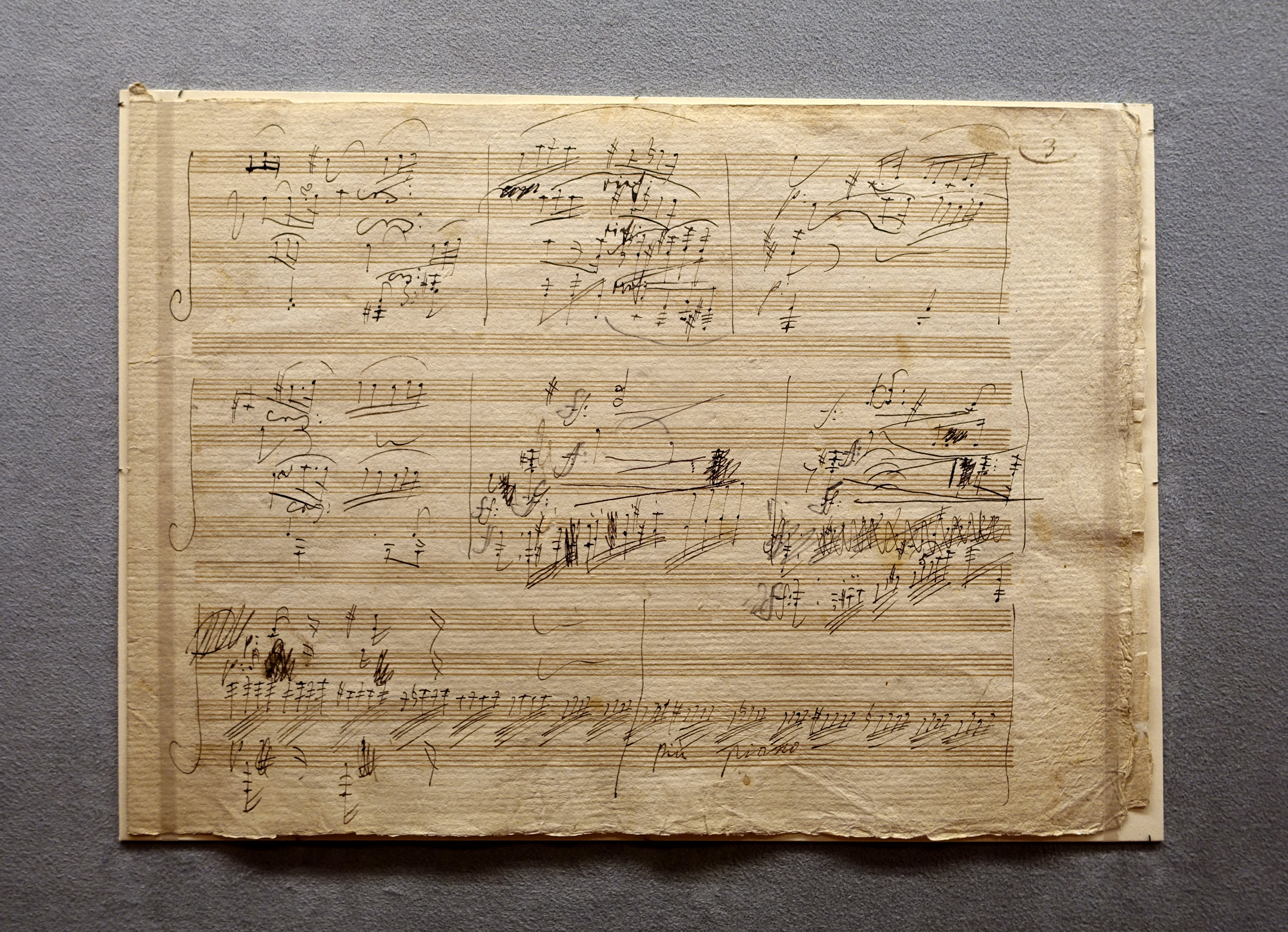 Exhibit in the Morgan Library & Museum - New York City, New York, USA.